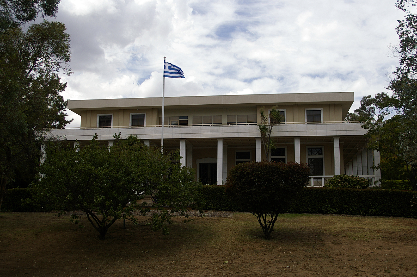 Embassy of Greece located in the Canberra suburb of Yarralumla, Australian Capital Territory, Australia.